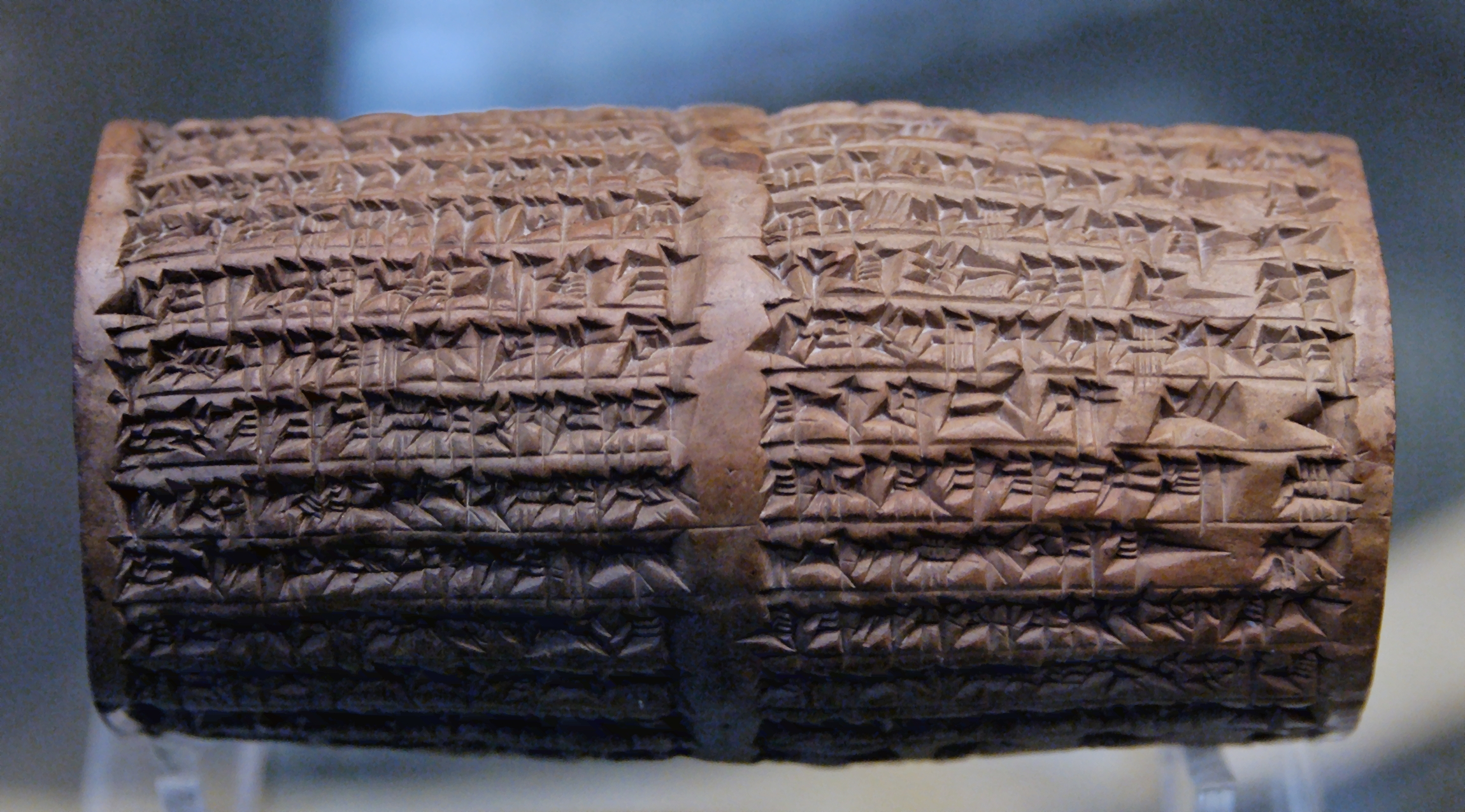 Cylinder describing repairs on the temple of the moon-god Sin at Ur by King Nabonidus, with a prayer for his son Belshazzar. Terracotta, 555-539 BC. [1]